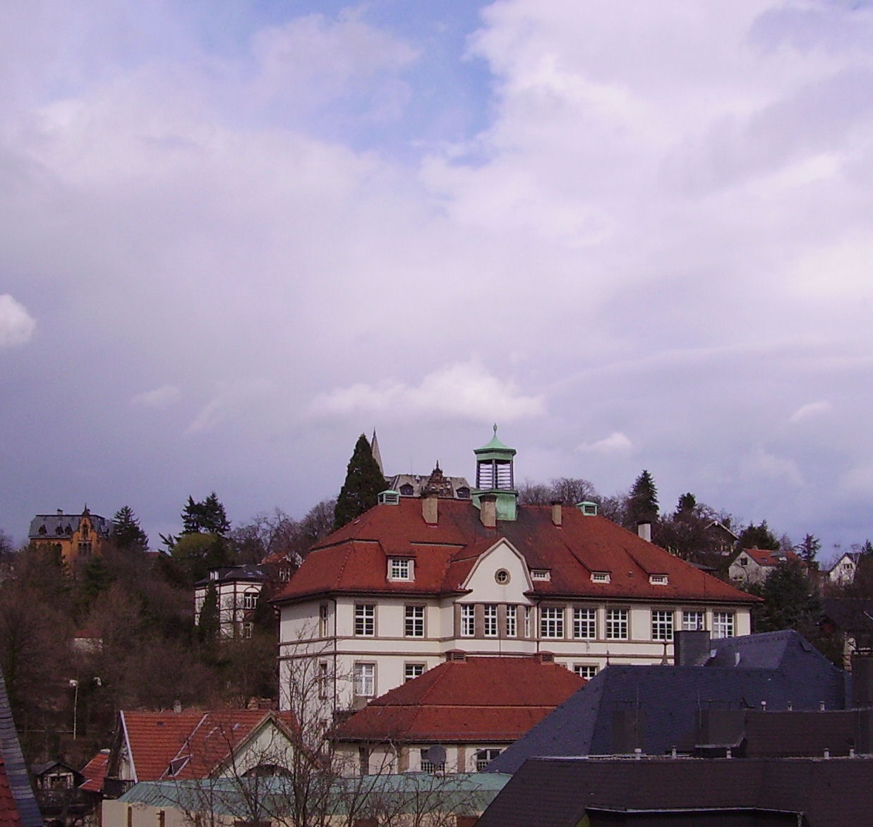 view of Neustadt an der Weinstraße, Germany